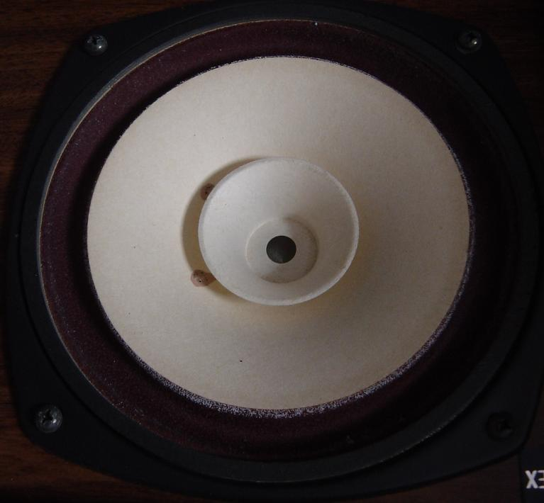 A double cone speaker unit.